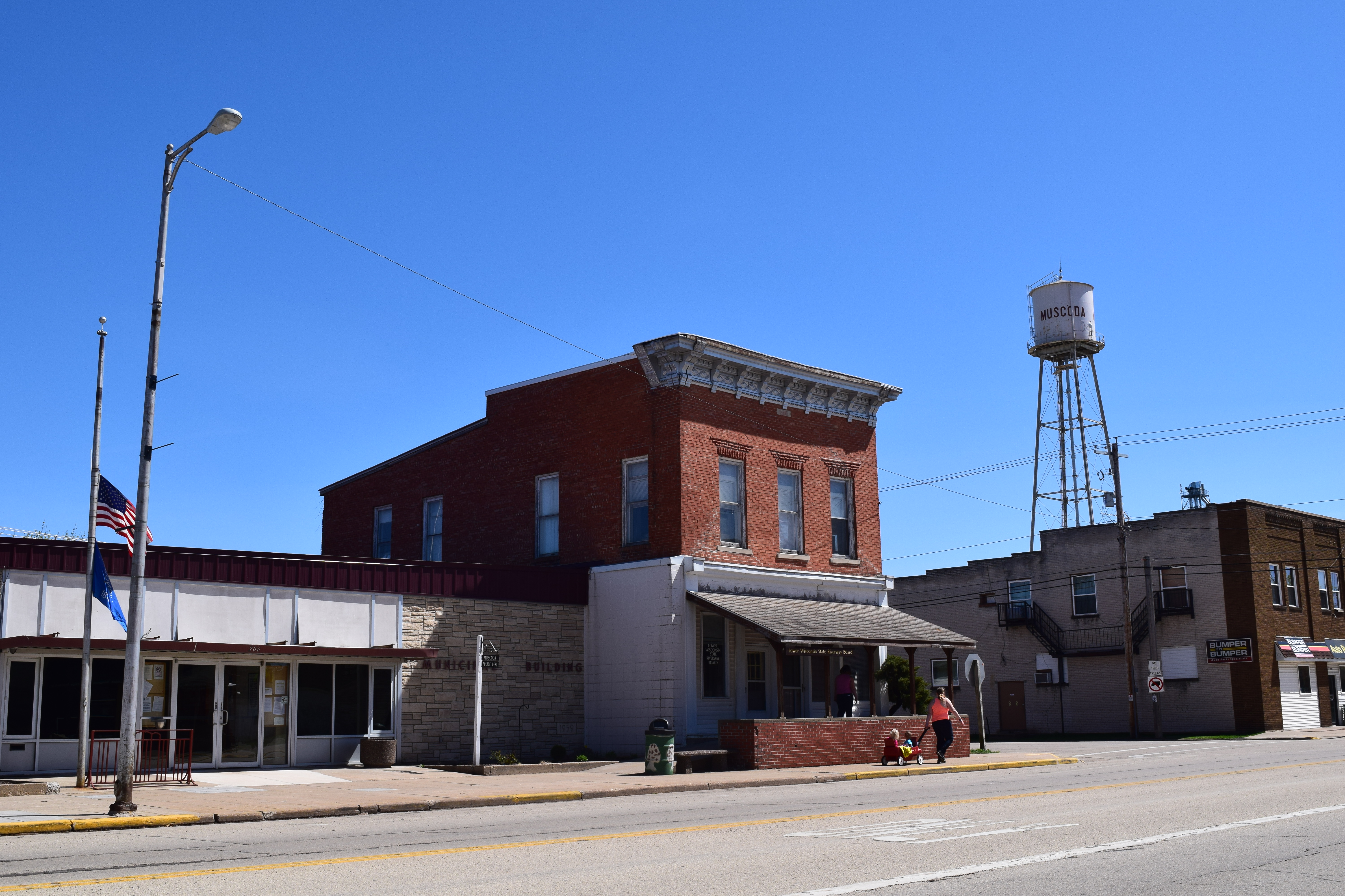 Downtown Muscoda, Wisconsin, including the municipal building and water tower.